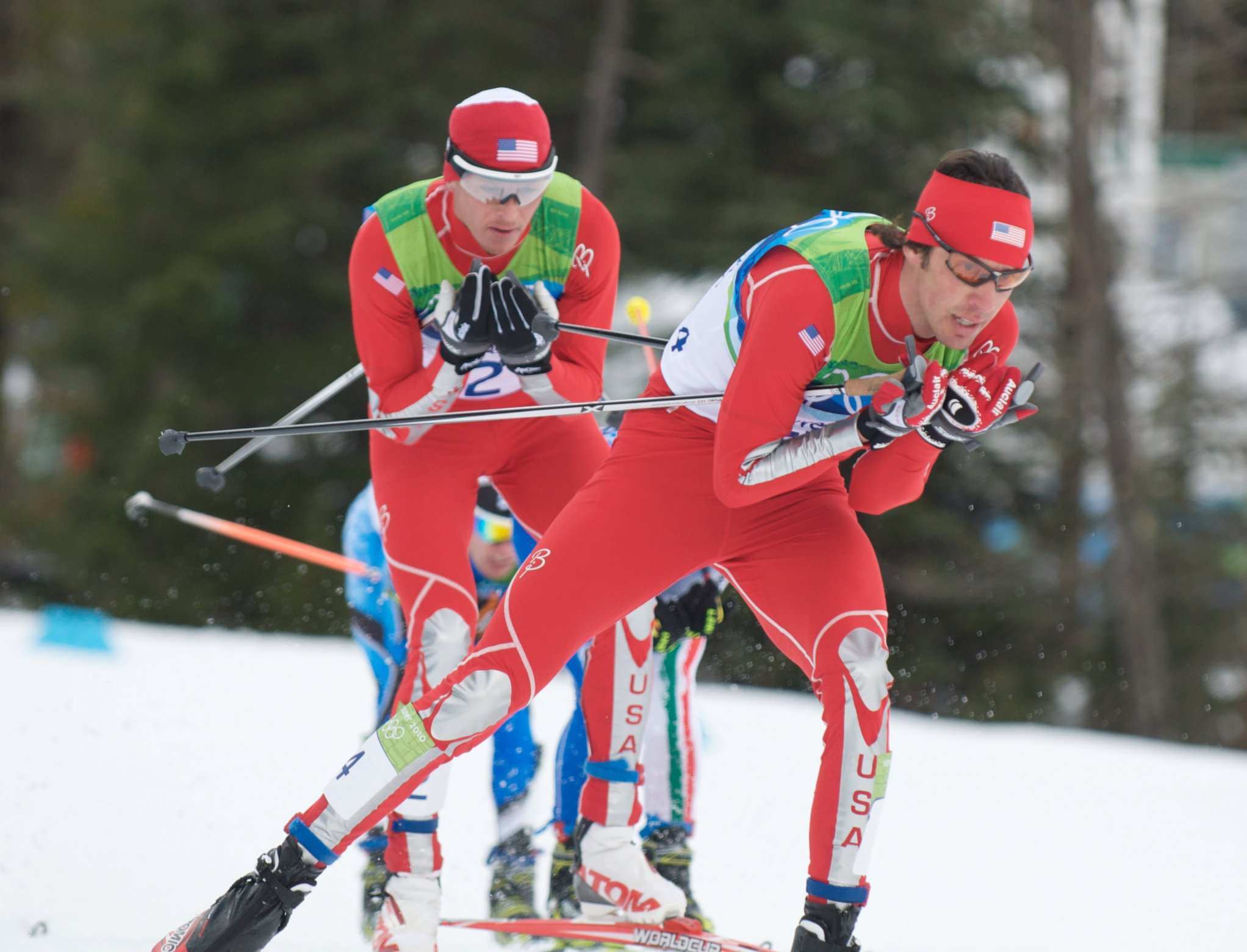 American nordic combined skiers Johnny Spillane (leading) and Todd Lodwick (second) at the 2010 Winter Olympics during the individual normal hill/10 km event. Spillane, who led until the final 75 meters, took home the Silver medal, becoming the first American ever to medal in the event. Lodwick finished 4th. It was the closest final in Olympic history.